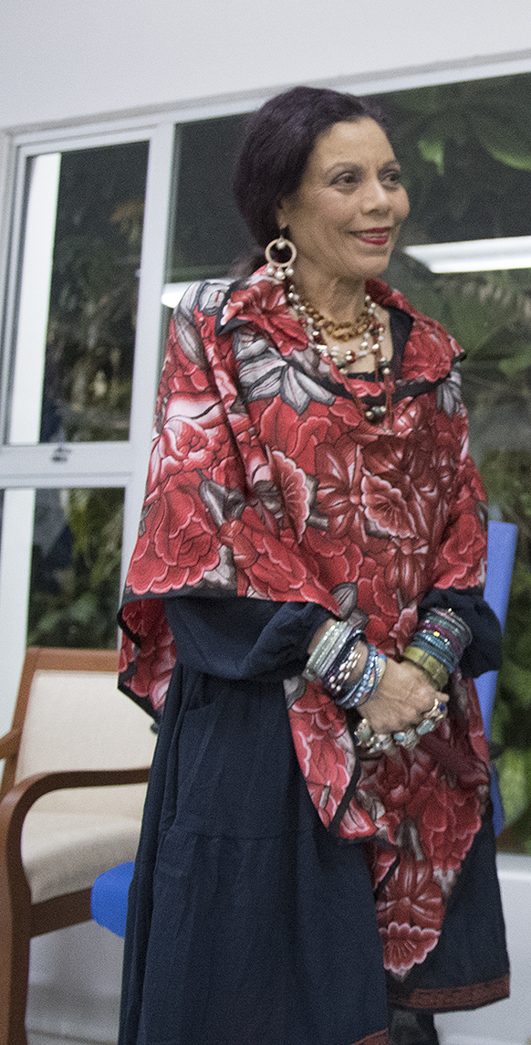 授權方式及範圍：中華民國總統府│政府網站資料開放宣告 Authorization Method & Scope: Office of the President, Republic of China (Taiwan) | Government Website Open Information Announcement